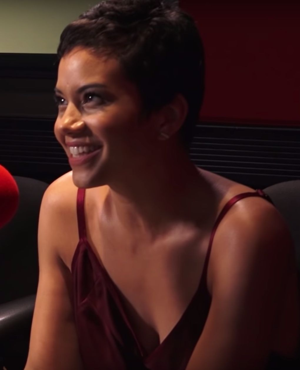 Mara Brock Akil, William Catlett, Michele Weaver Discuss Realism of The Show w/ Deja